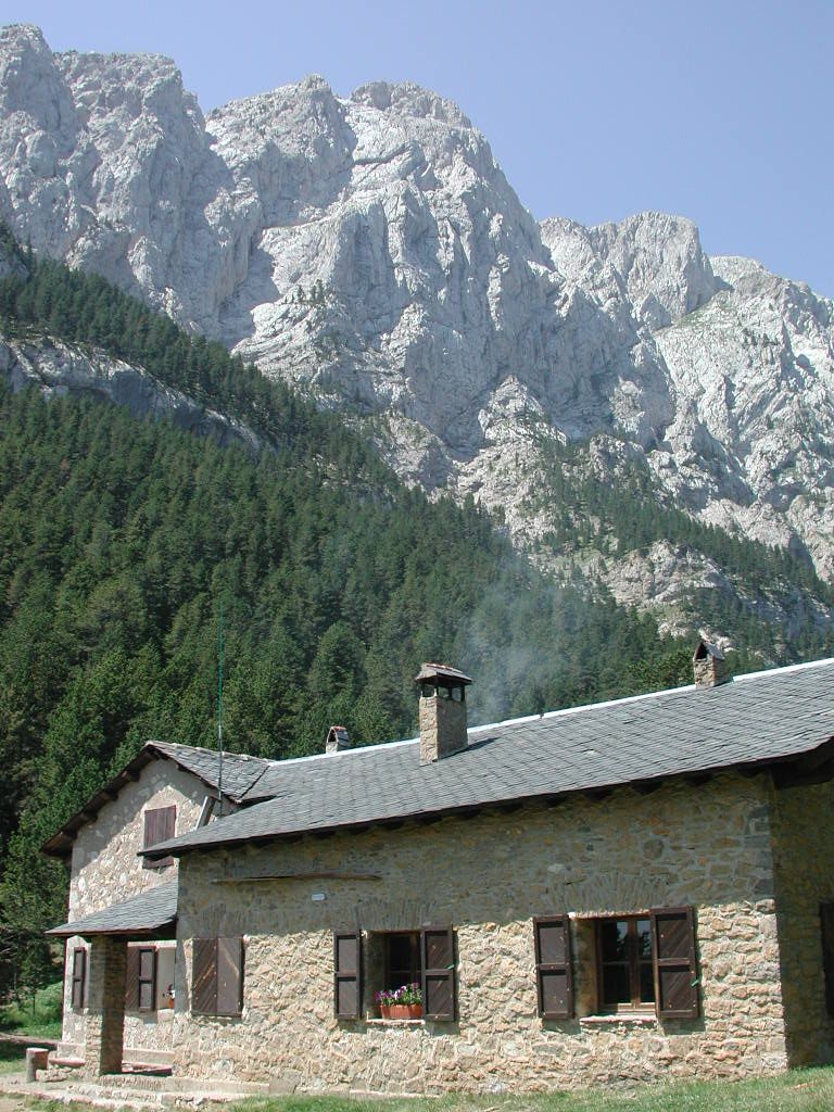 Refugi Estasen, against north face of Pedraforca, Catalunia, Spain